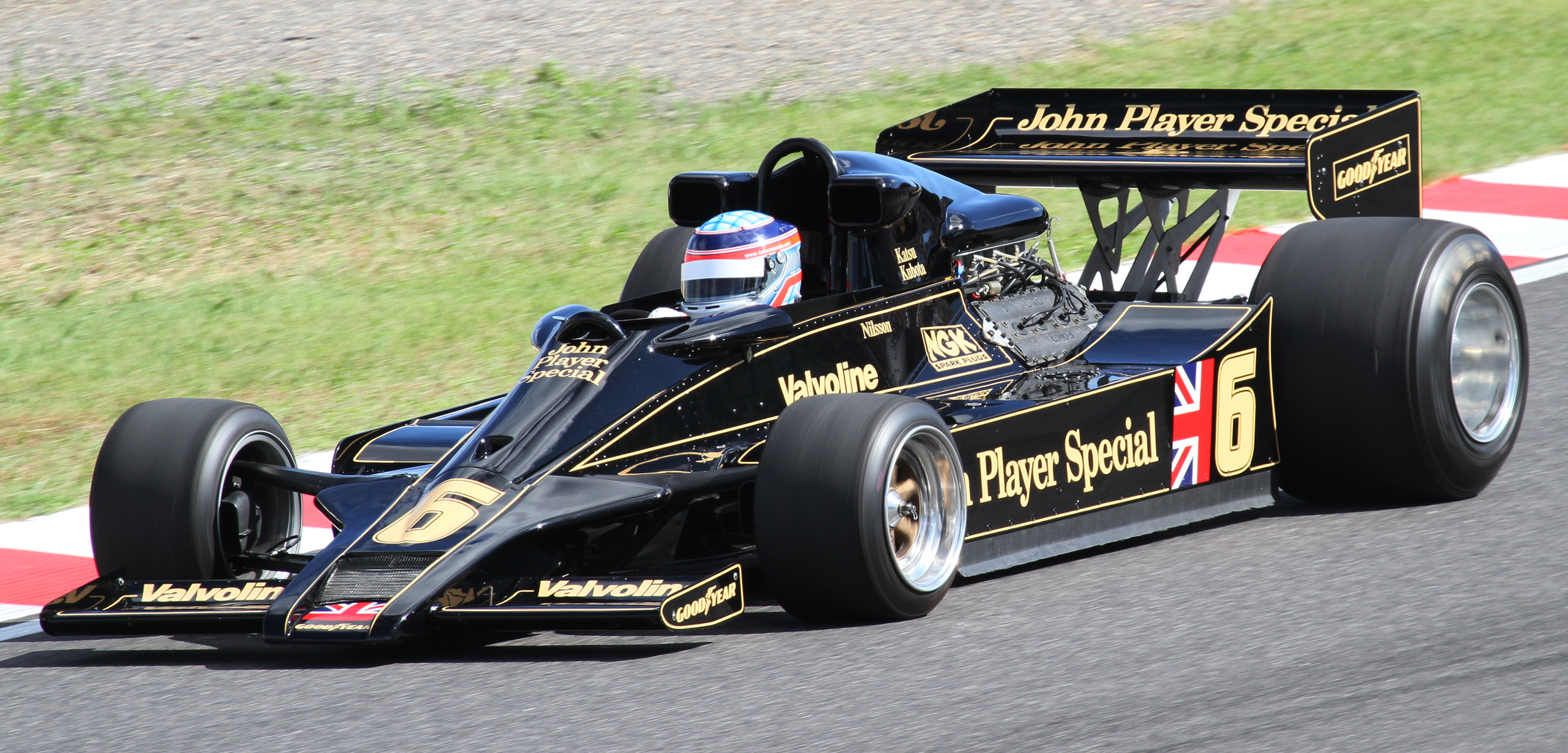 Formula One 2010 Rd.16 Japanese GP: Takuma Sato demonstrating the Lotus 78.